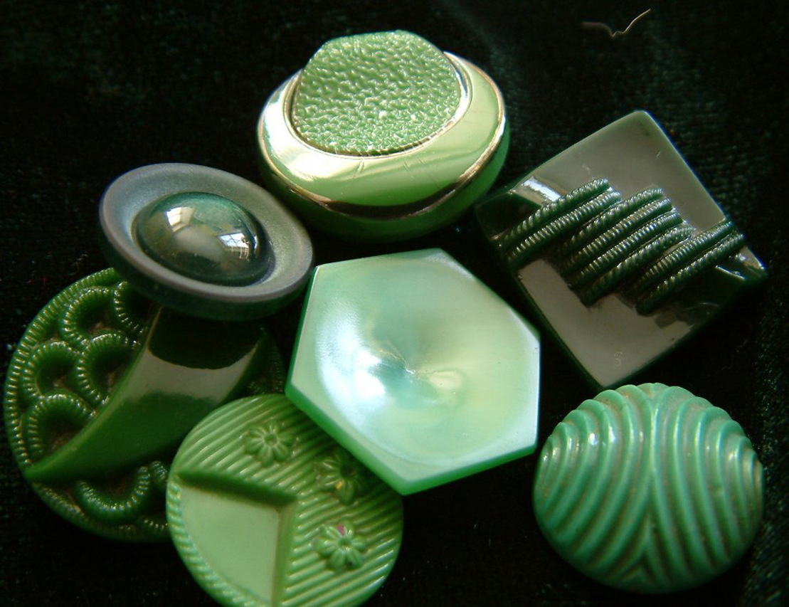 Mostly art deco buttons in that green so much used in the 1930s